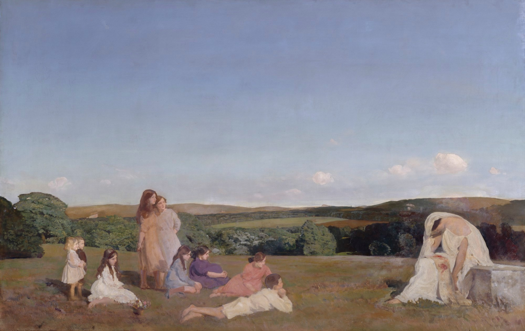 "Clio and the Children" Clio, the Muse of history is depicted here, reading from a scroll to a group of nine children in a meadow.